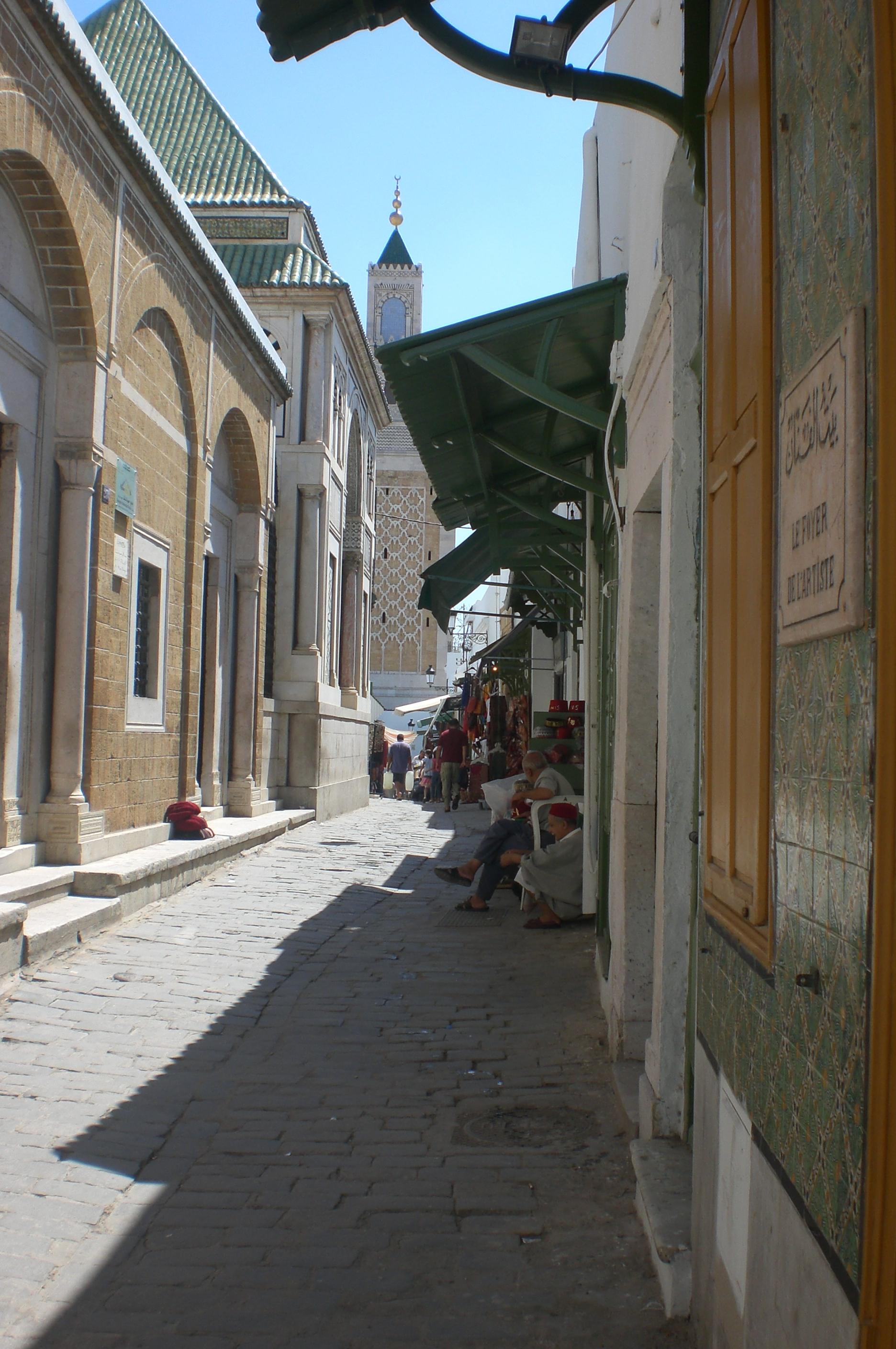 Rue Sidi Ben Arous- Medina of Tunis